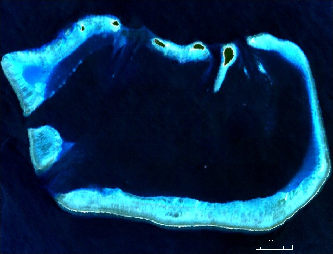 natural colors satellite image of Bramble Haven atoll, southeast Papua New Guinea